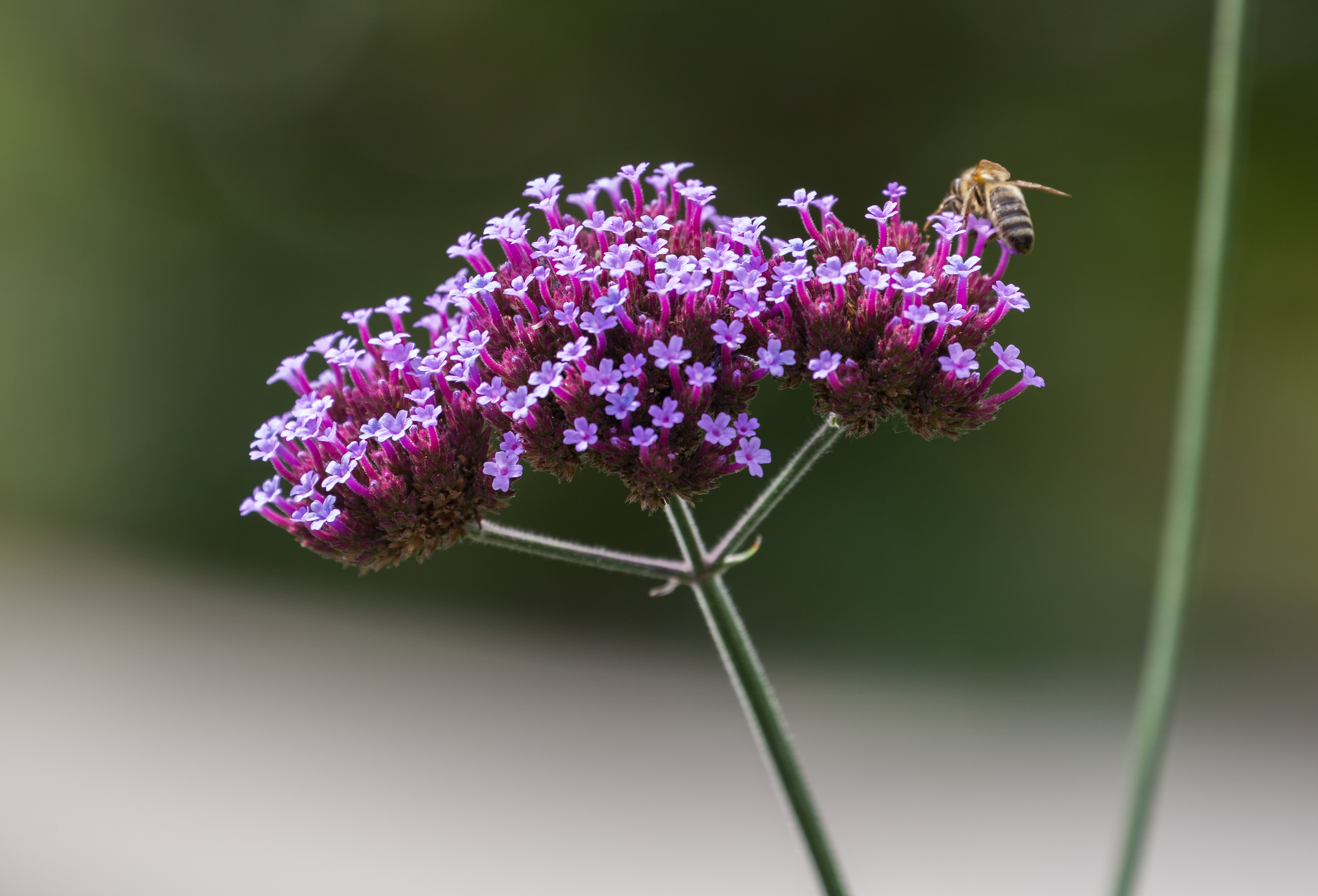 Bee (Lasioglossum calceatum) on a Purpletop vervain (Verbena bonariensis), Munich Botanical Garden, Germany